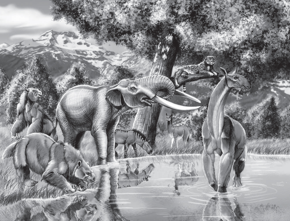 Reconstruction of a lagoon in central Chile during the late Pleistocene. Pictured: Glossotherium robustum, Megatherium (Pseudomegatherium) medinae, Notiomastodon platensis, Hippidion saldiasi, Palaeolama cf. P. weddelli, Panthera onca and Macrauchenia patachonica.